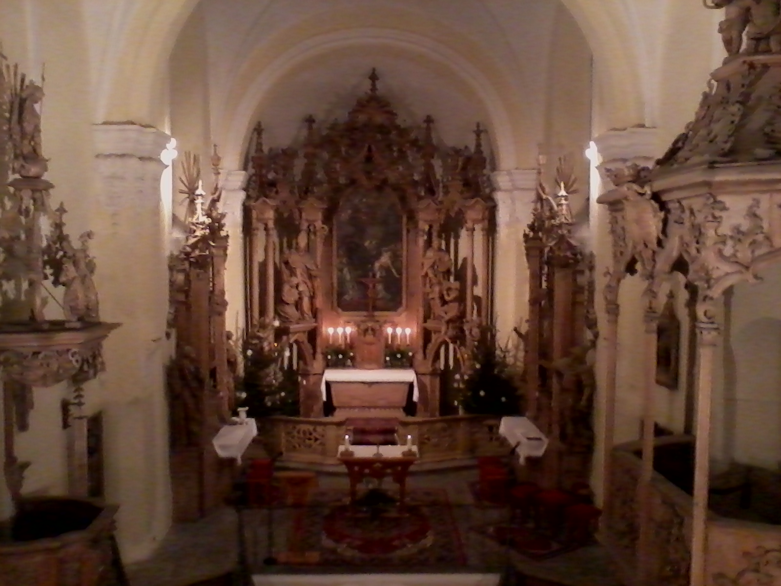 Interior of the St. Gallus Church (kostel sv. Havla) in Poříčí nad Sázavou with carvings in the Baroque-Gothic style. (View from the organ loft.)